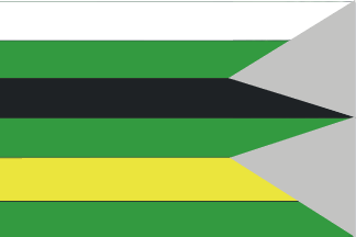 official flag of Šútovo, Slovakia